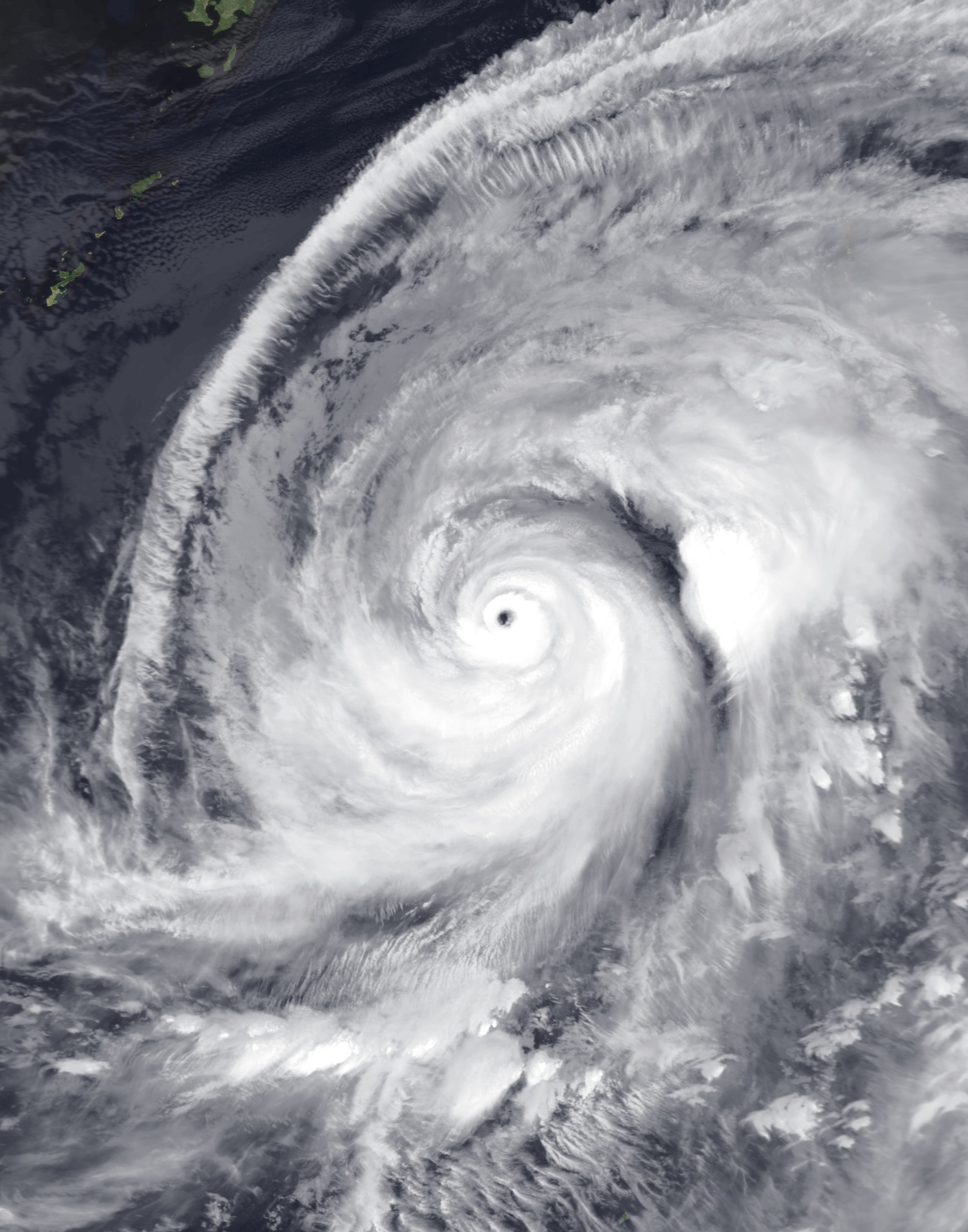 Typhoon Wipha on the night of October 13, 2013.